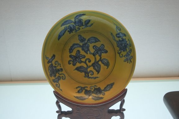 A Chinese Ming Dynasty (1368-1644 AD) blue-and-yellow porcelain dish from the reign of the Zhengde Emperor (1505-1521 AD).